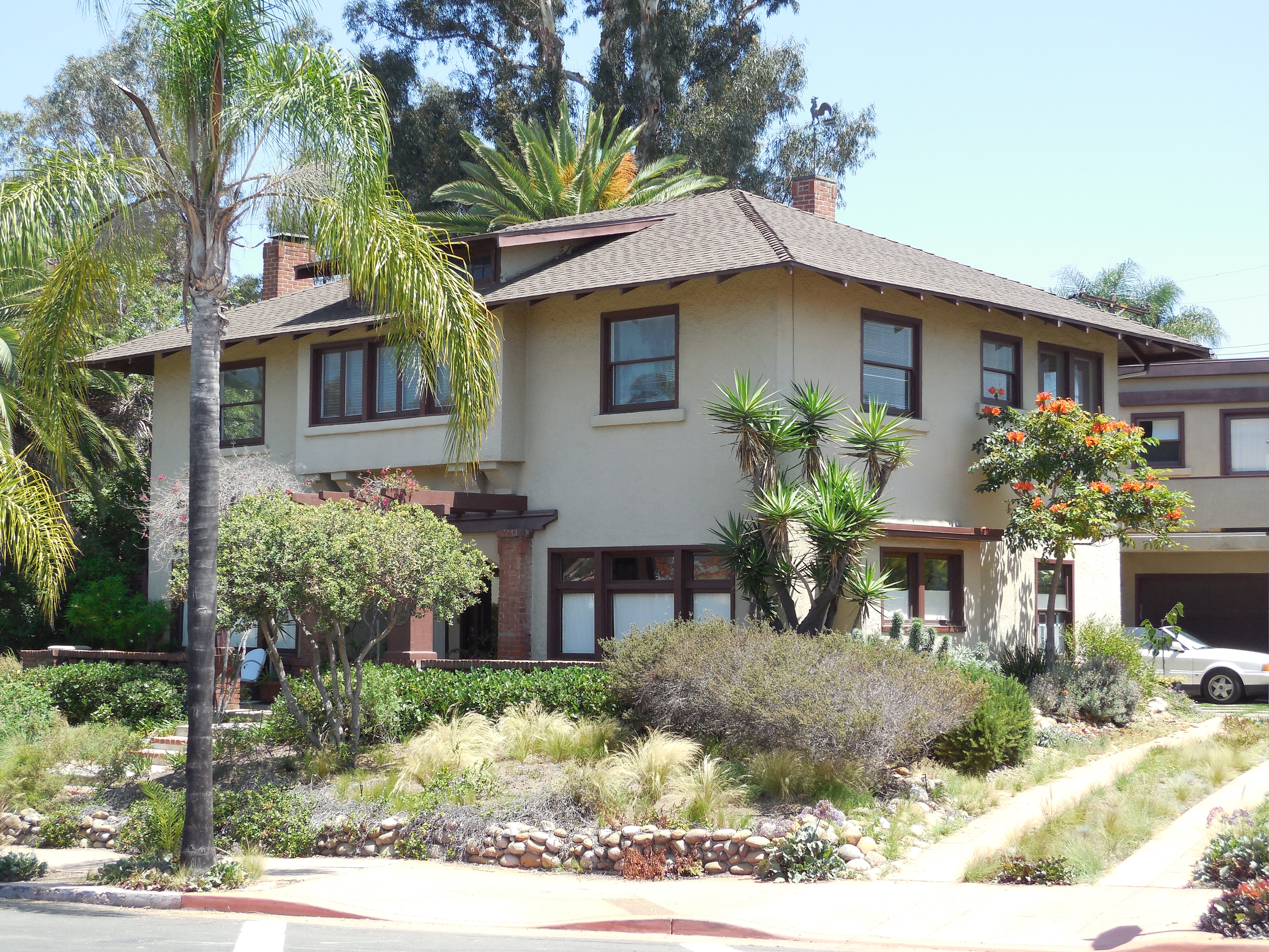 The Wegeforth-Wucher house at 3004 Laurel St. in San Diego, California (zip code 92104). The house was designed and built in 1912 by architect William Henry Wheeler in the American Foursquare style for Dr. Harry M. Wegeforth (who later founded the Zoological Society of San Diego and San Diego Zoo) and his wife Rachel Granger (daughter of millionaire Ralph Granger). The couple were married in the home on November 14, 1913 and lived there for a year. The house is designated historical site no. 163 by the City of San Diego.